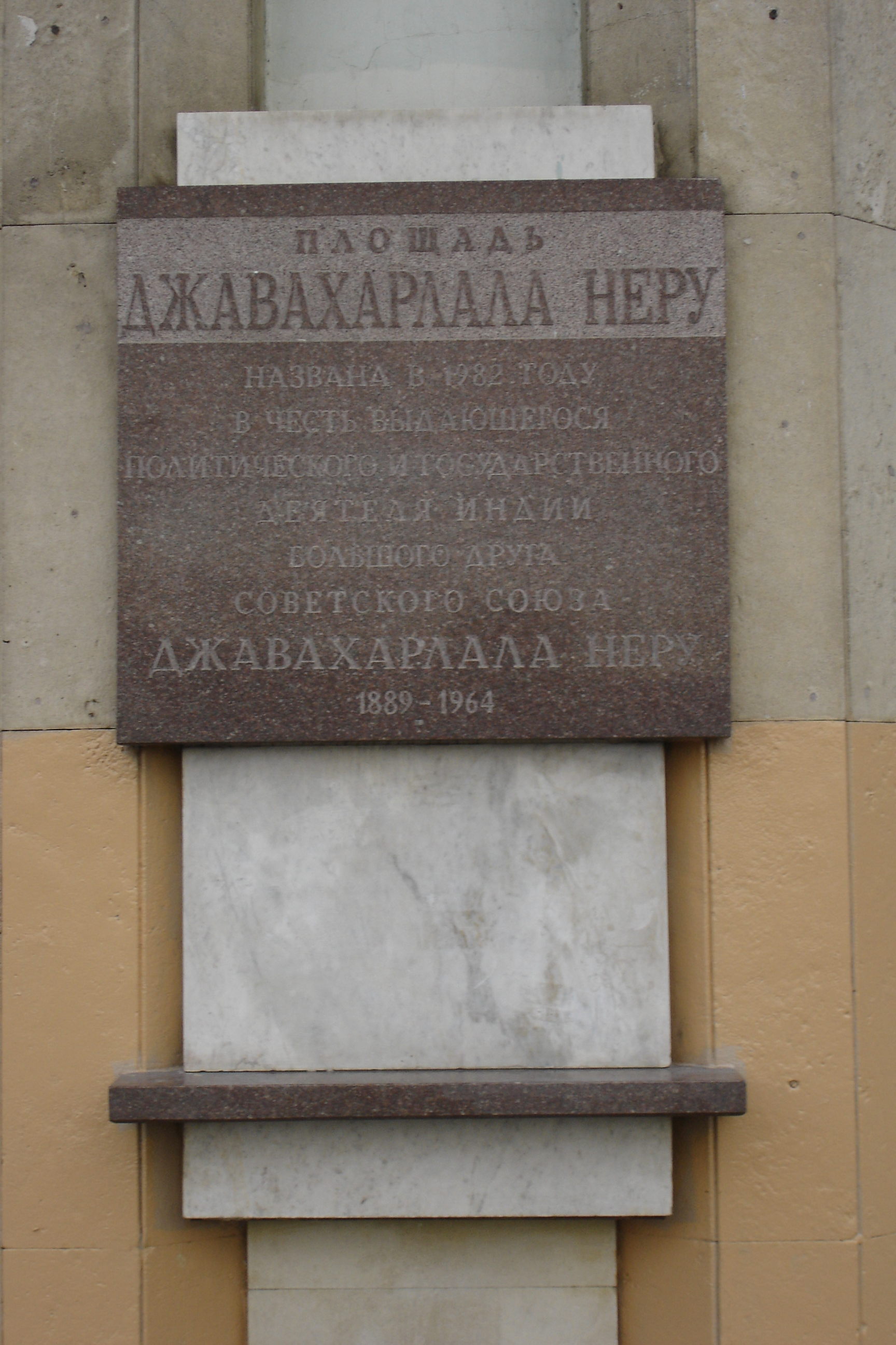 Jawaharlal Nehru Square — Memorial desk at the wall of northern-side hall of "Universitet" metro station. Moscow, Russia. Jawaharlal Neru square